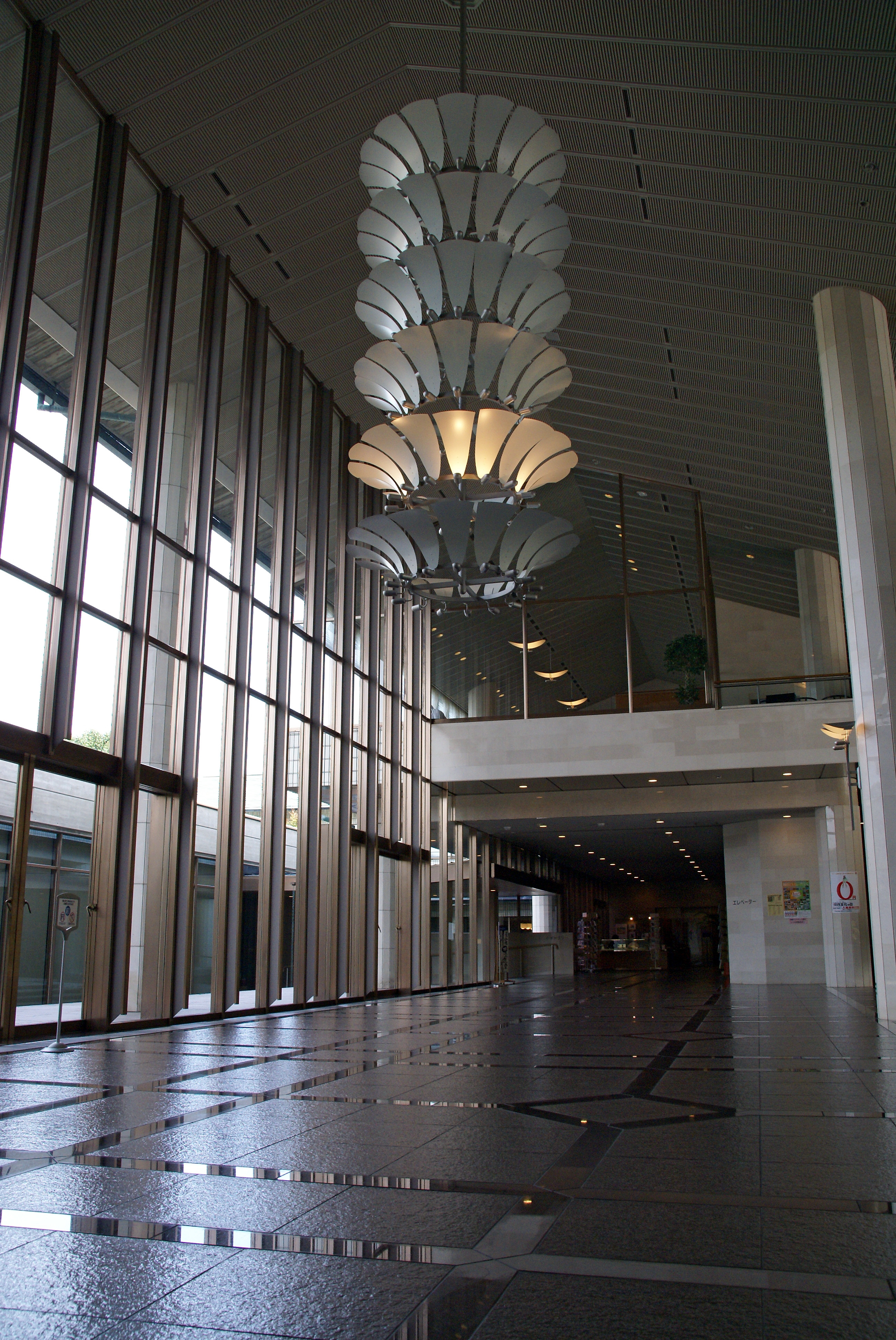 The Museum of Modern Art, Shiga in Otsu, Shiga prefecture, Japan